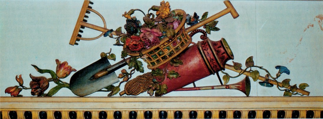 Pfaueninsel (isle of peacocks) near Berlin. Detail inside the small castle.